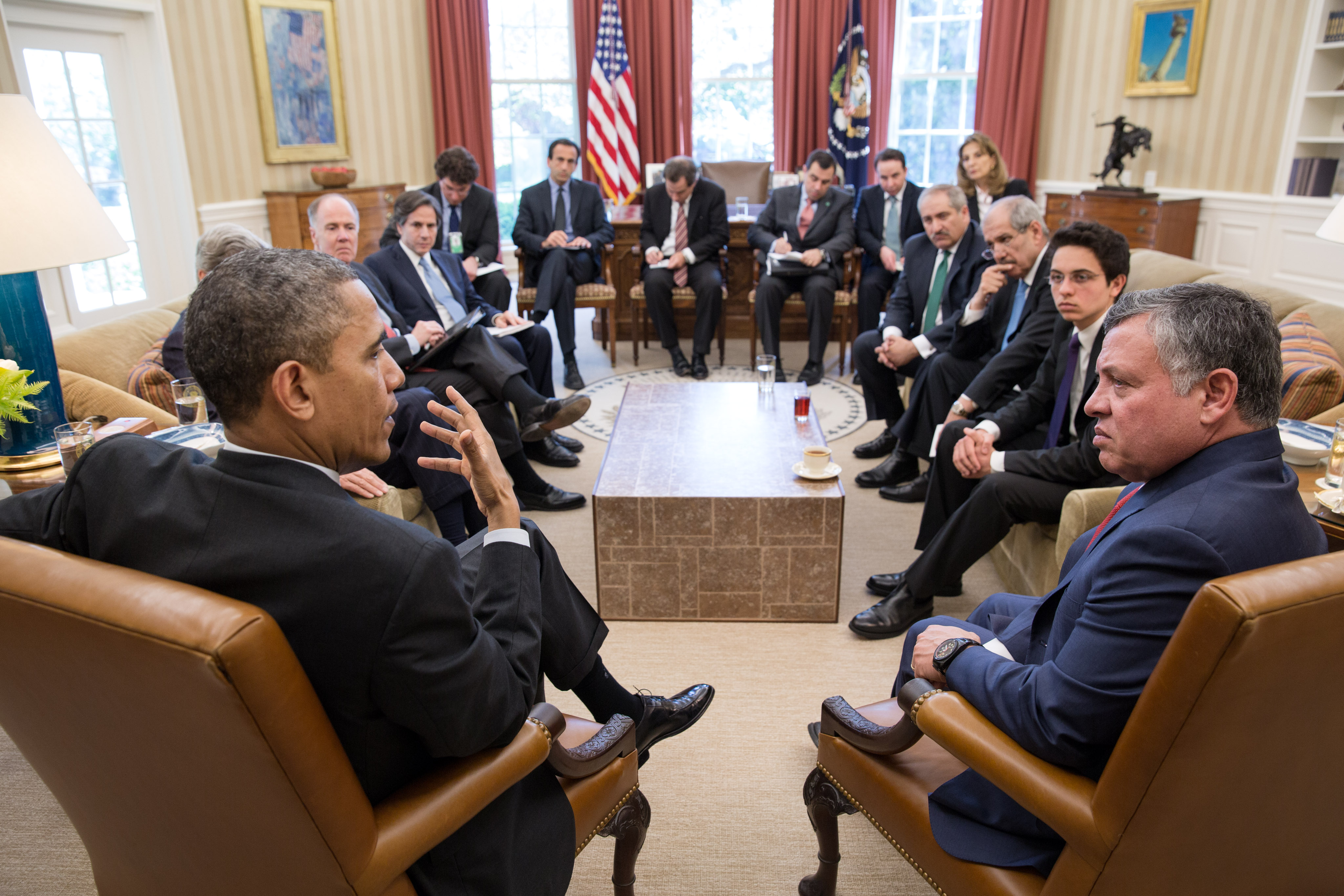 United States President Barack Obama and King Abdullah II of Jordan hold a bilateral meeting in the Oval Office in the White House on 26 April 2013.